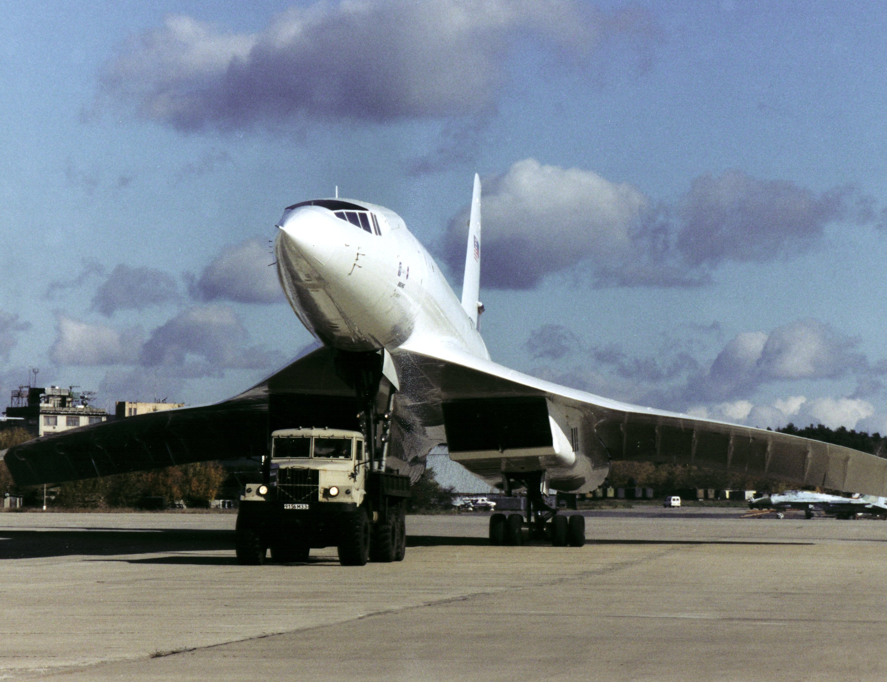 The modified Tu-144LL supersonic flying laboratory is rolled out of its hangar at the Zhukovsky Air Development Center near Moscow, Russia in March 1996 at the beginning of a joint U.S. – Russian high-speed flight research program. The "LL" stands for Letayuschaya Laboratoriya, which means Flying Laboratory.